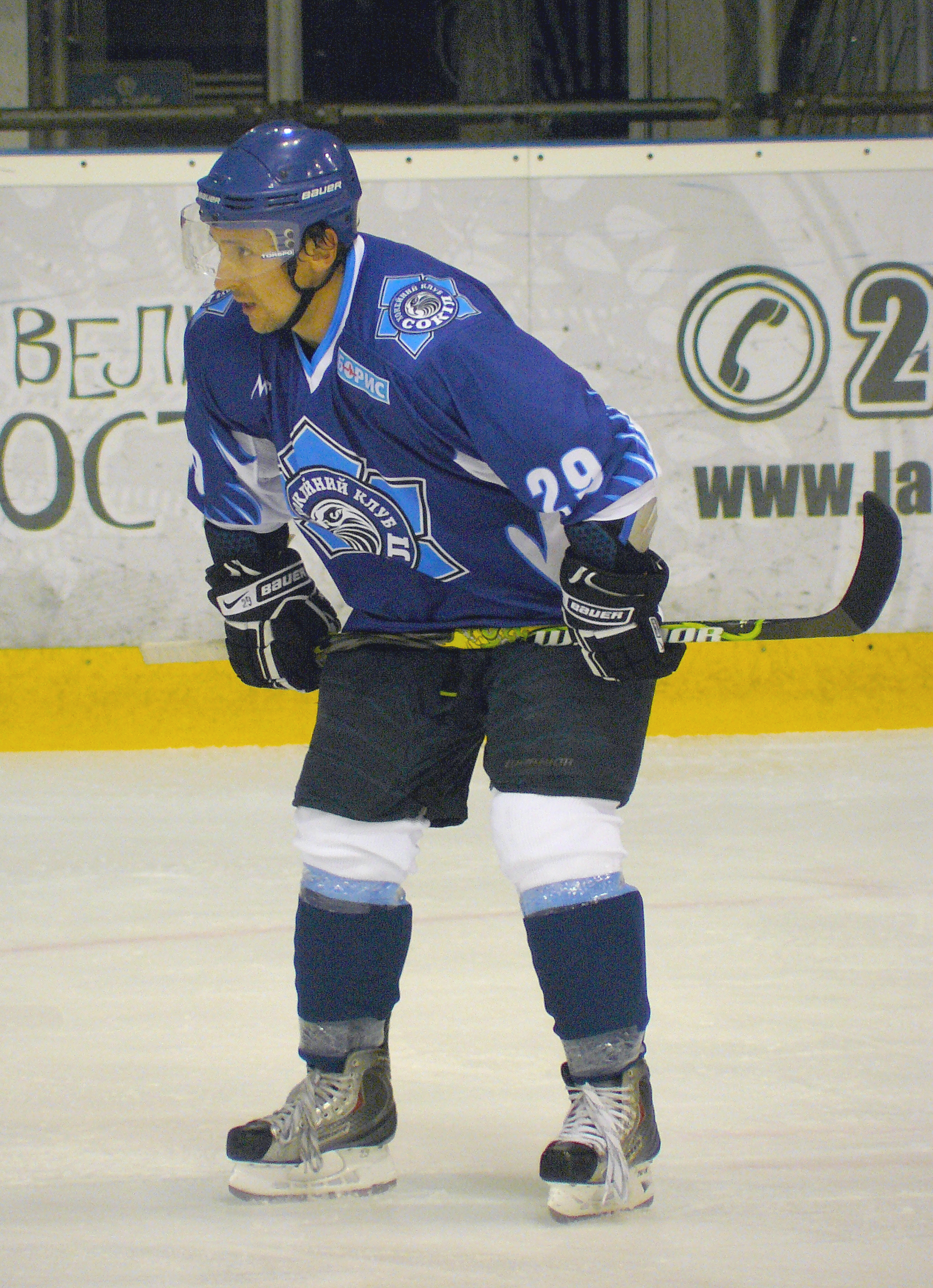 Right winger Valentin Oletskiy #29 of the Sokil Kyiv during the Belarus Extraliga game against the Yunost Minsk on September 15, 2010 at the Terminal Arena in Brovary, Ukraine. Yunost Minsk won the game 2:1.